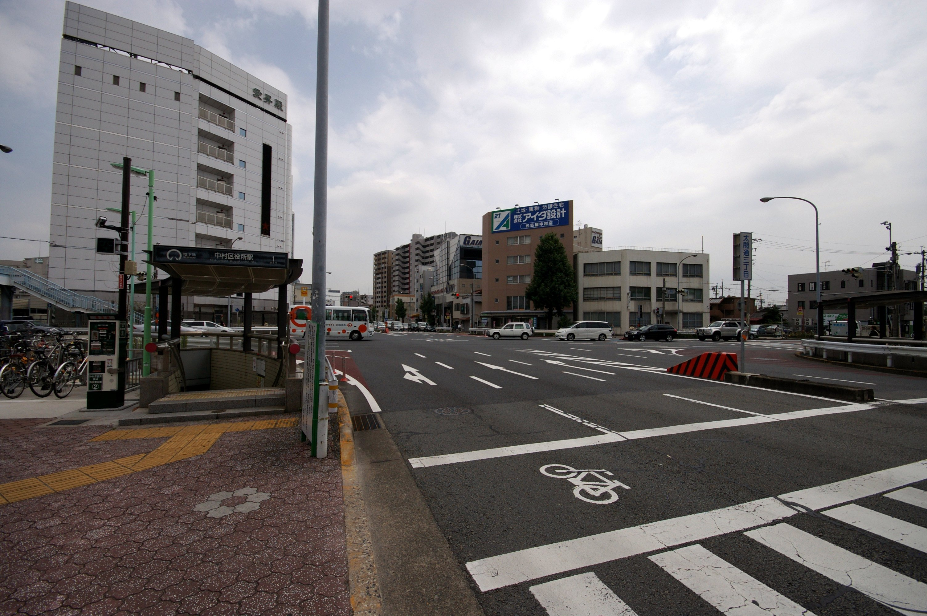 Nagoya Nakamura Kuyakusho Subway Station